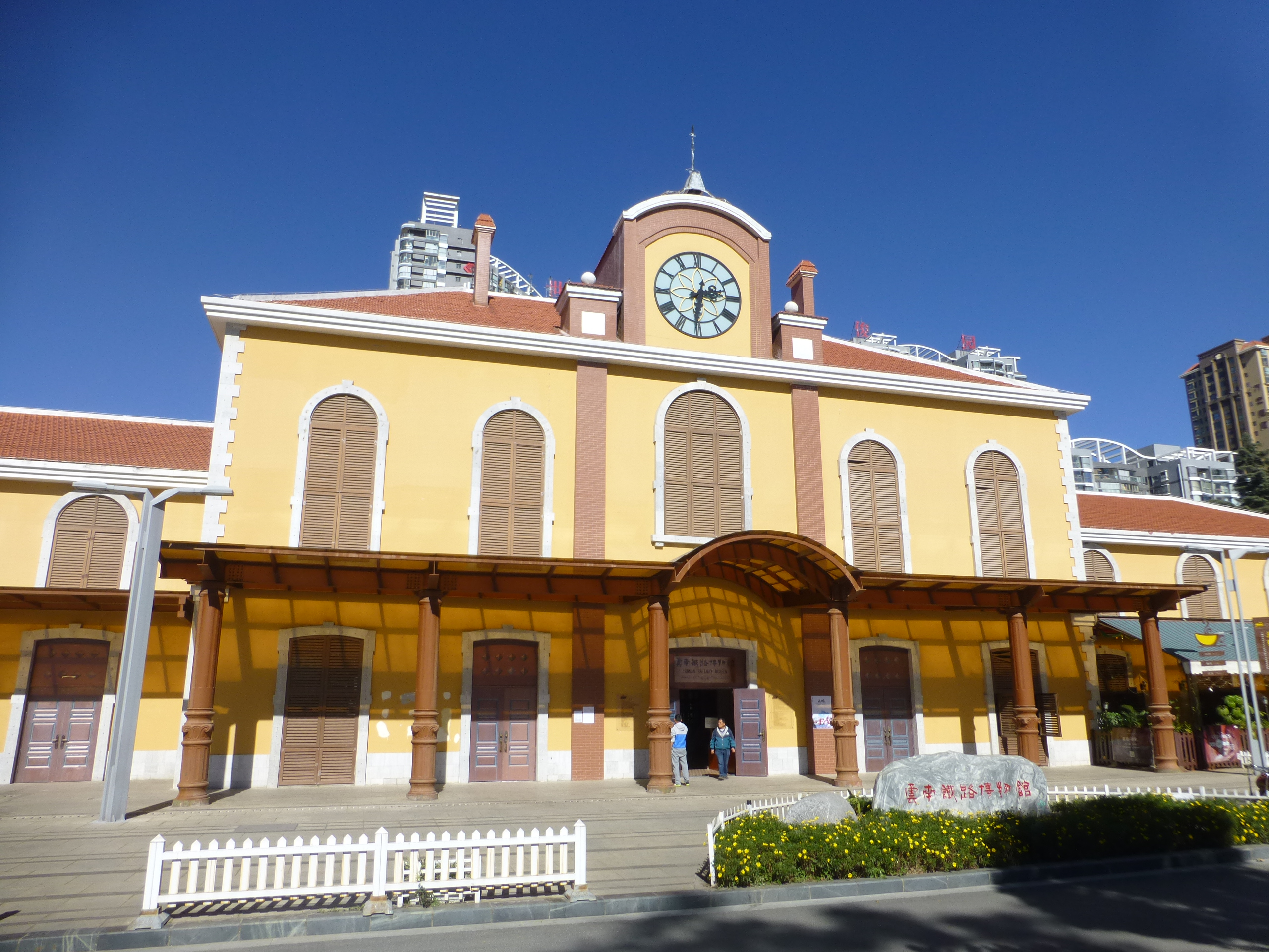 An outside view of Kunming North Railway Station (the Yunnan Railway Museum)